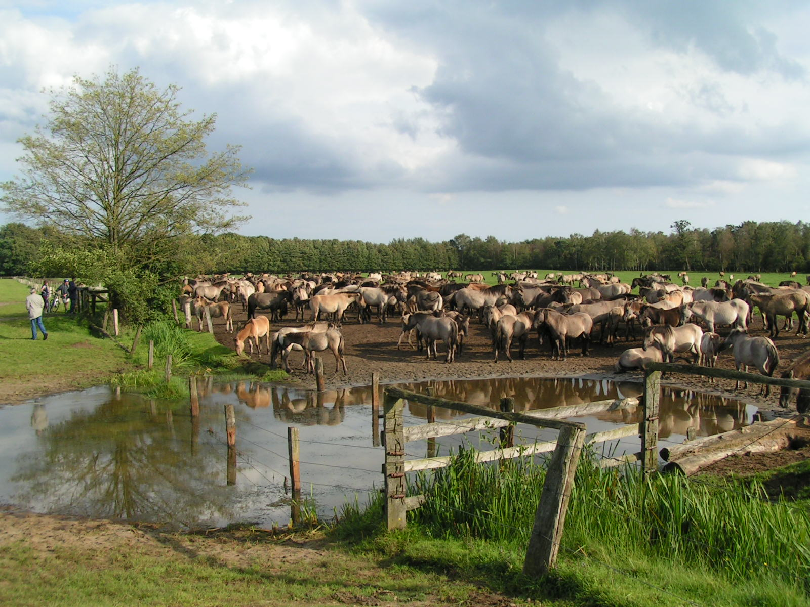 Wildpferde in Dülmen im Münsterland : Dulmen pony, the only remaining native pony breed in Germany : Dülmener-paard : Konik z Dulmen Source: own work Date: Sept 20, 2004, Mersfelder Bucht, Dülmen, Germany Author: Maschinenjunge other versions: Image:DülmenerWildpferd.jpg Licence: GFDL, cc-by 3.0